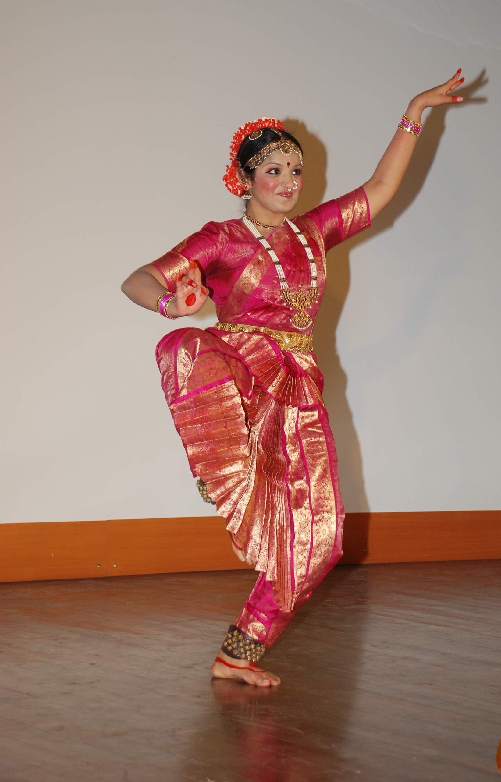 Upasana, Classical Dance Competition